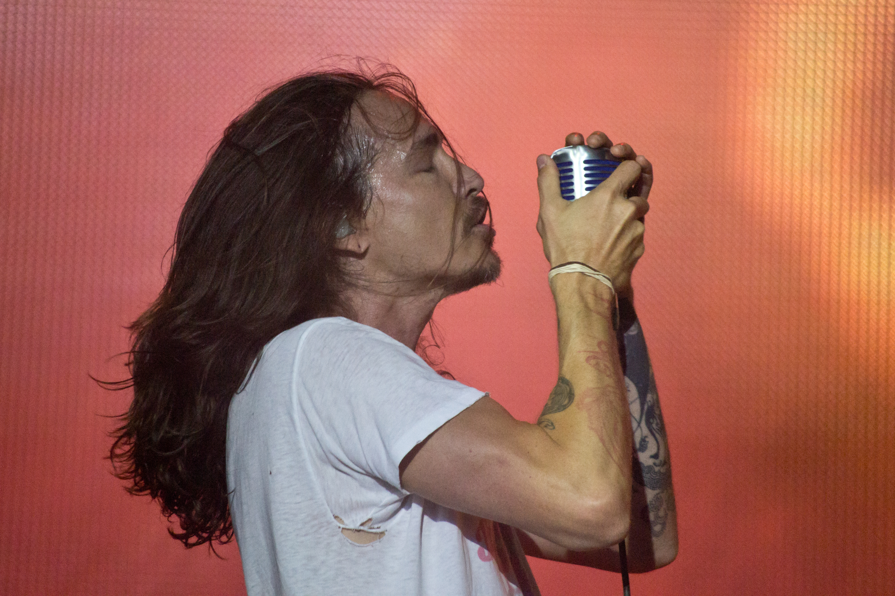 Incubus in Rock in Rio Madrid 2012.